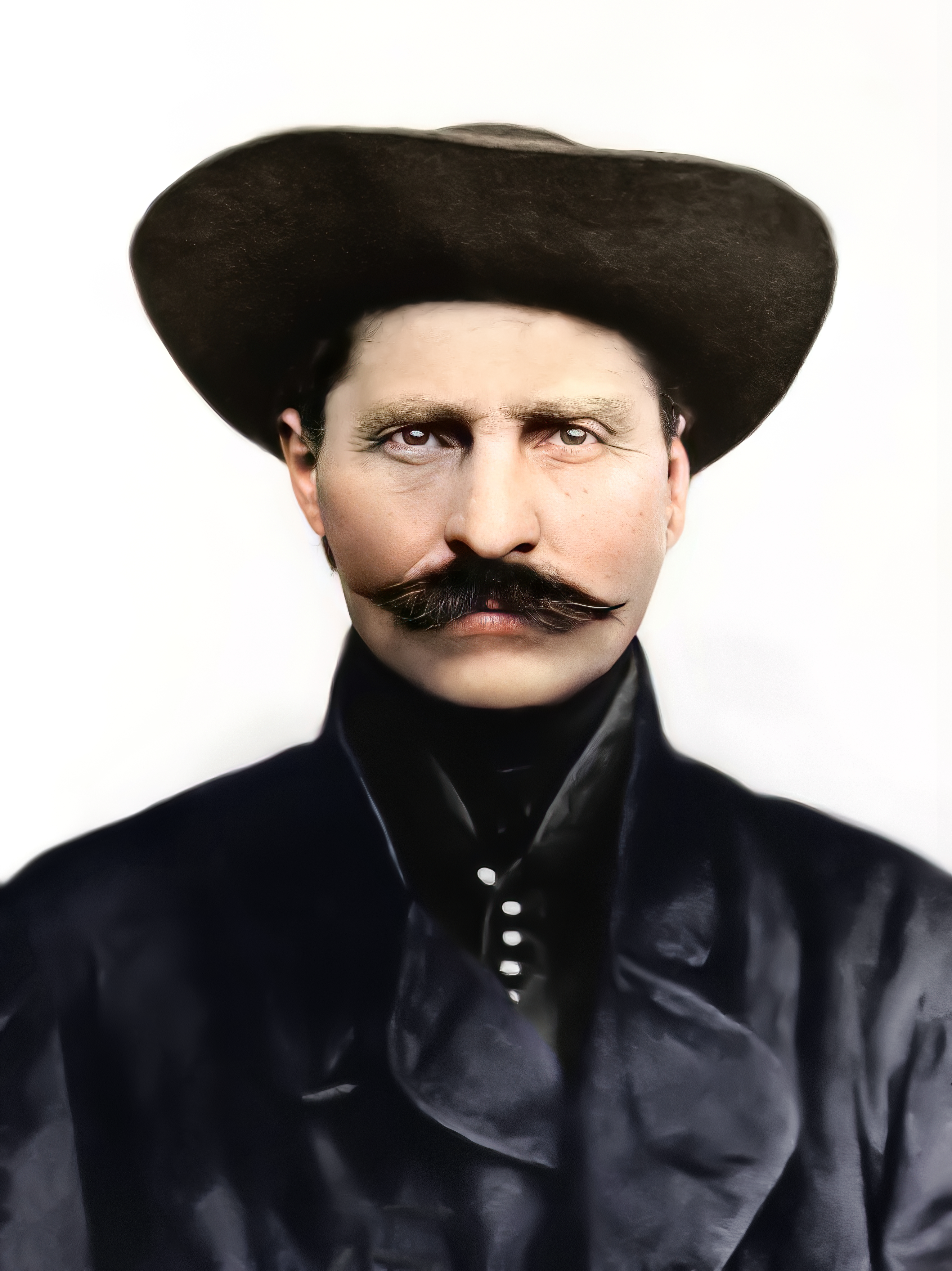 Sándor Rózsa